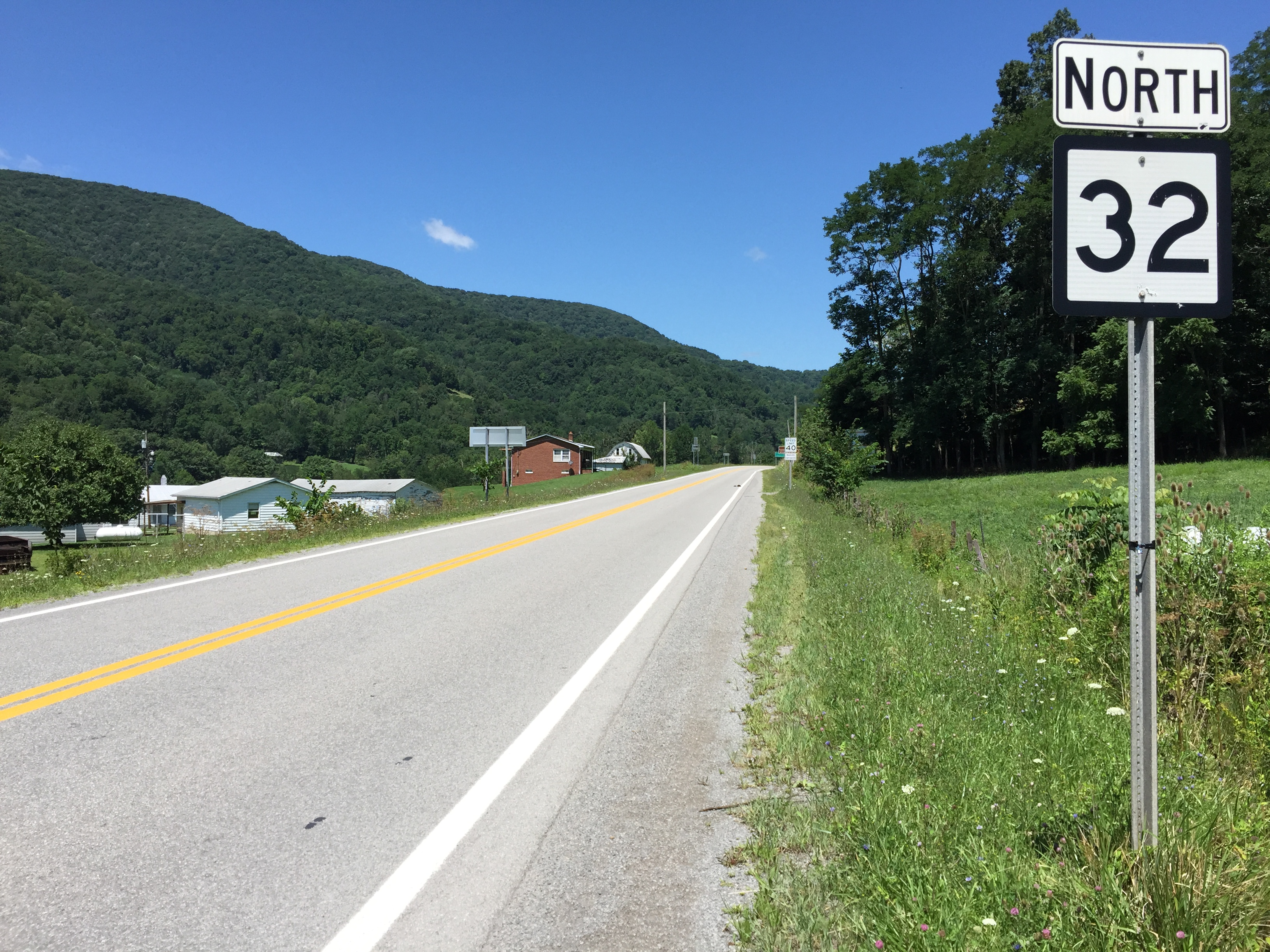 View north along West Virginia State Route 32 (Appalachian Highway) at Mott Street in Harman, Randolph County, West Virginia